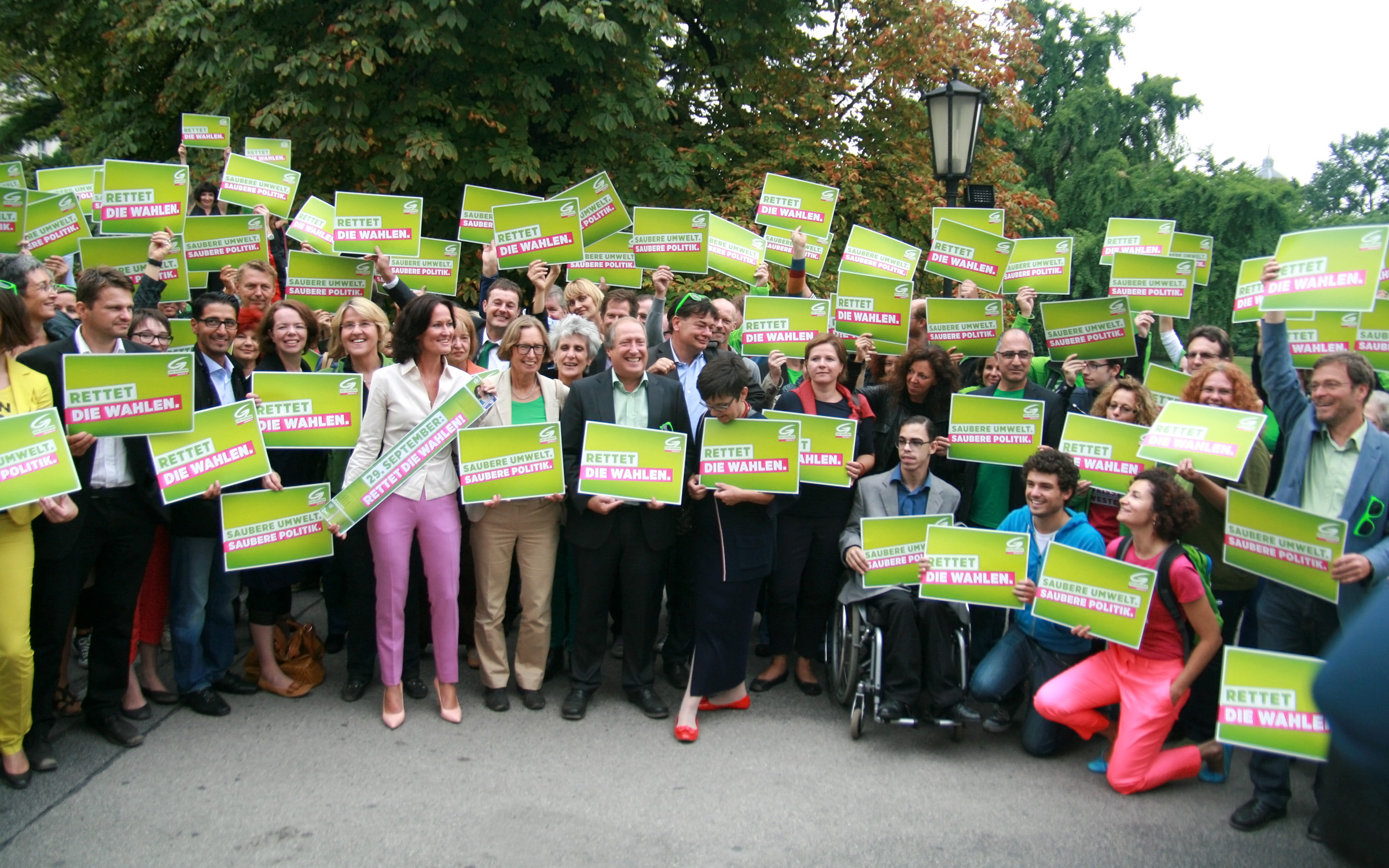 Kick-off event of The Greens – The Green Alternative for the campaign for the Austrian legislative election 2013 at Palmenhaus/Burggarten in Vienna, Austria.